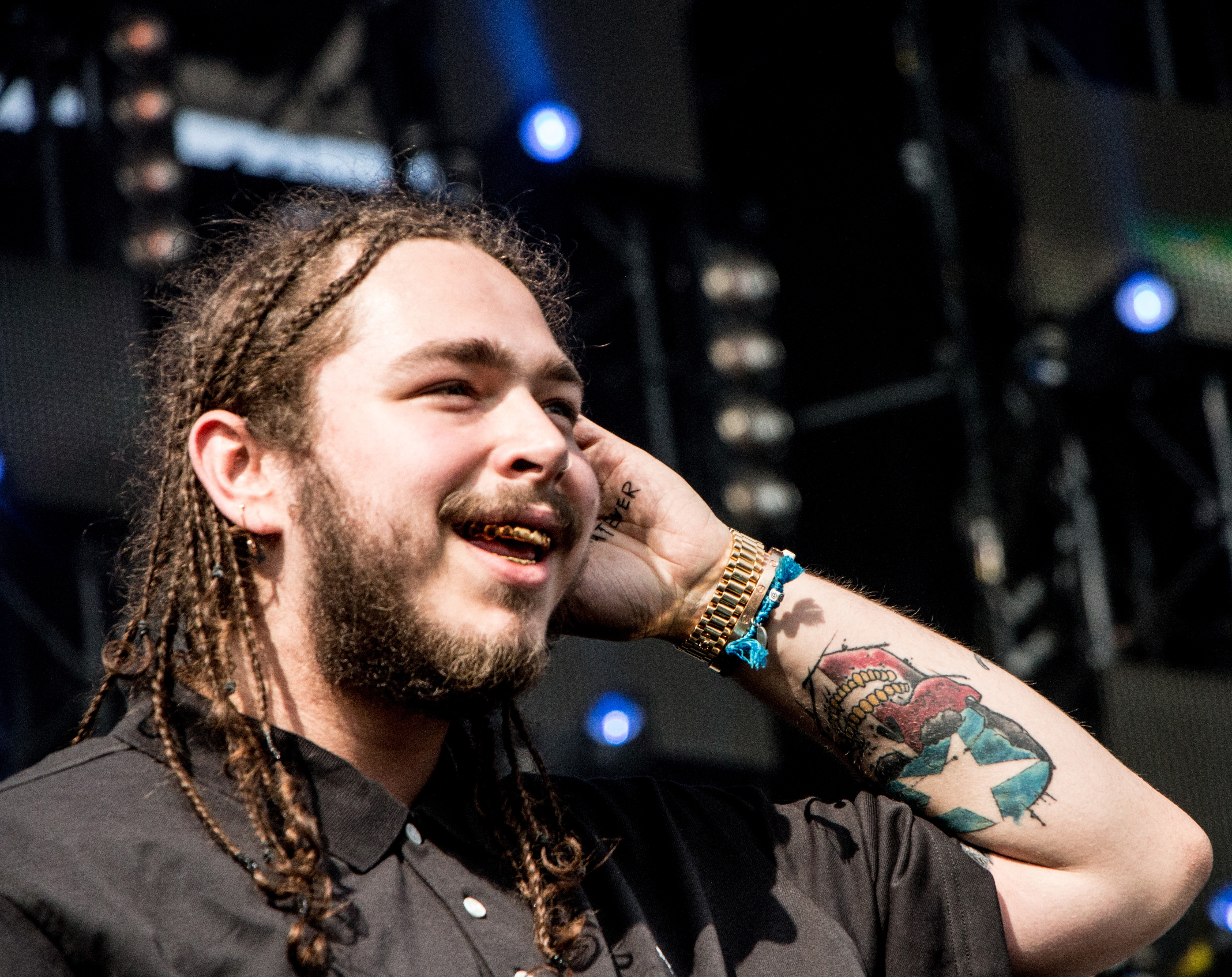 Post Malone played live at Veld 2016